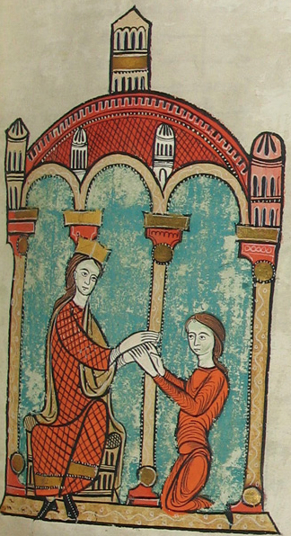 Liber Feudorum Maior - Jazpert de Peralada renders tribute to Count Raymond Berenguer III for the town of Peralada. The miniature takes up the left margin of the folio, next to the text of the tribute, a single column.